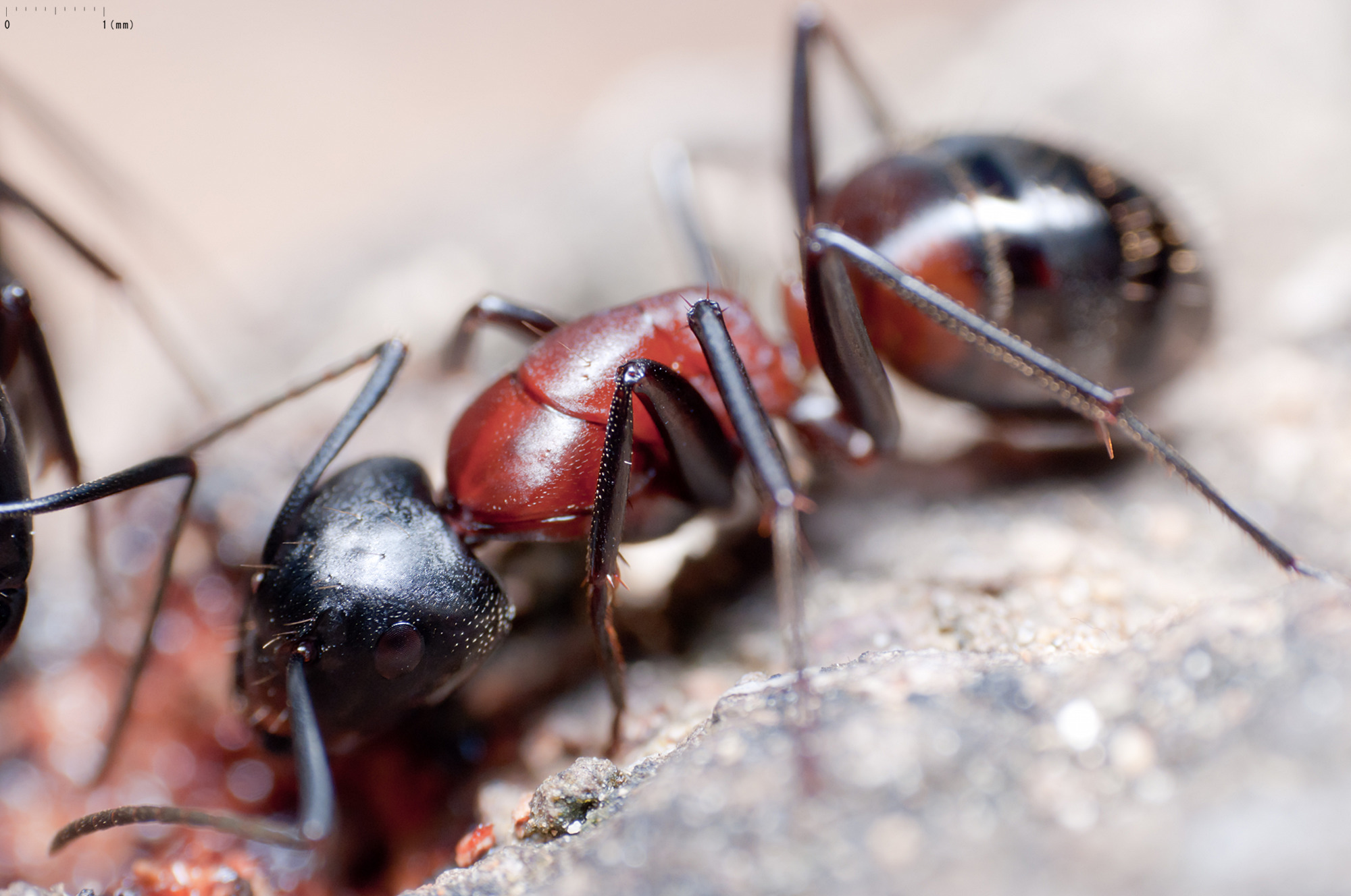 Camponotus obscuripes